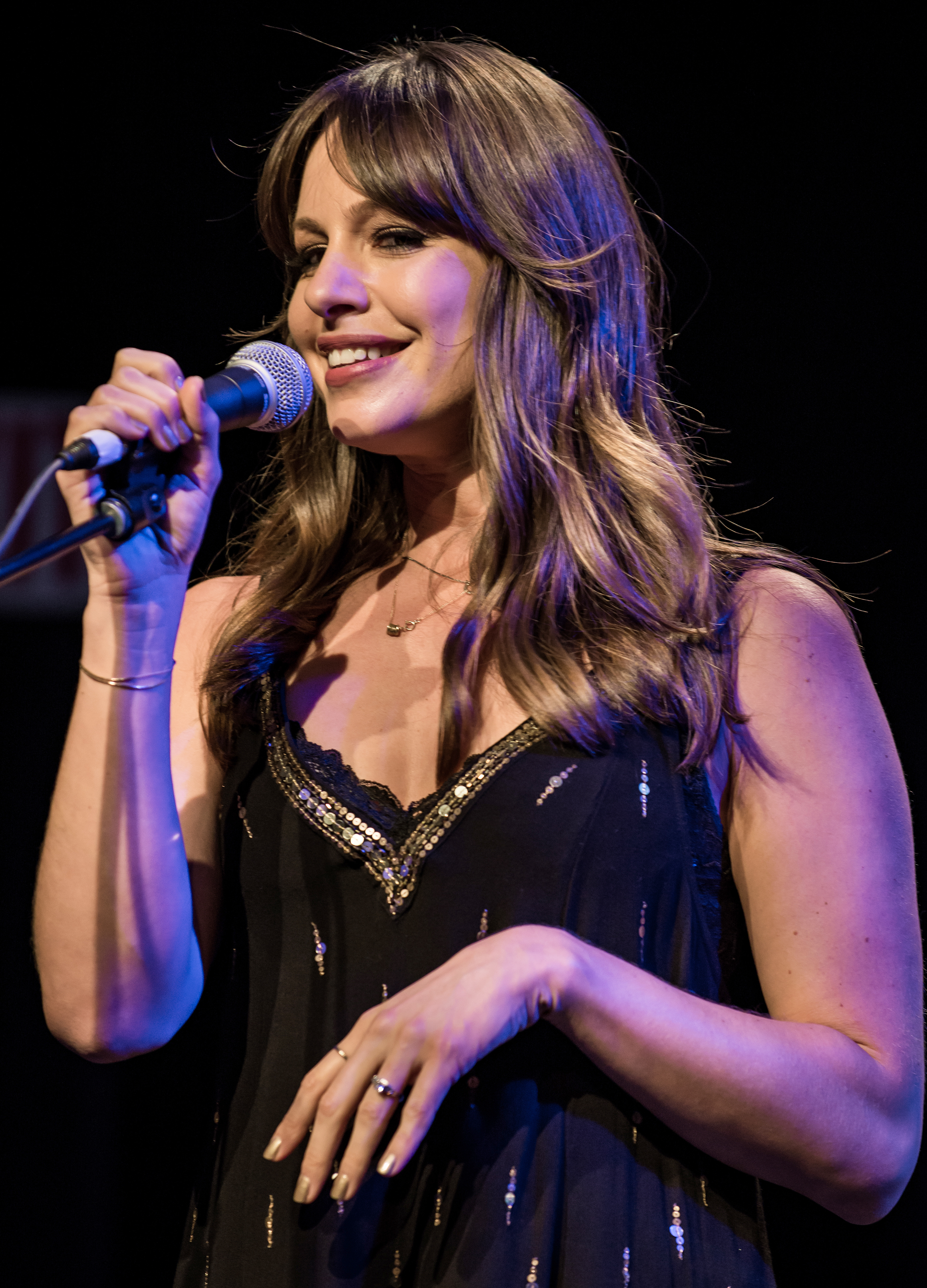 Korbee (Tom & Jenn Korbee) performing live in the Taylor Guitars Showroom at the Winter NAMM Show, in Anaheim California on Friday January 20, 2017.